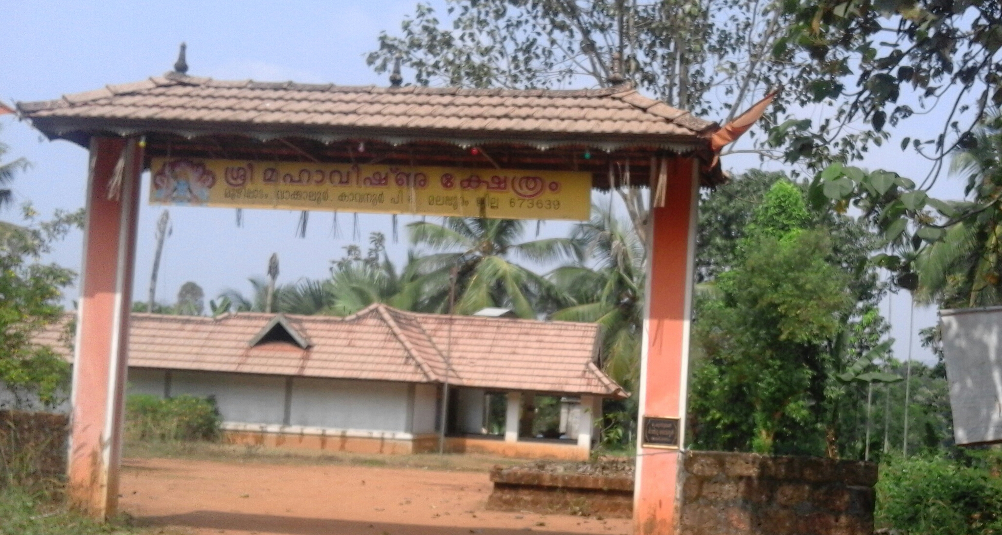 Areekode, Malappuram District, Kerala, India.